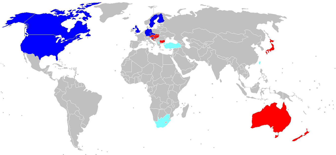 Participants of 2012 IIHF World inline hockey championhips Top division I. division Other qualification teams